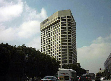 The Kyoto Grand Hotel in Little Tokyo (previously the New Otani Hotel). Photographed on April 6, 2005 by user Coolcaesar.